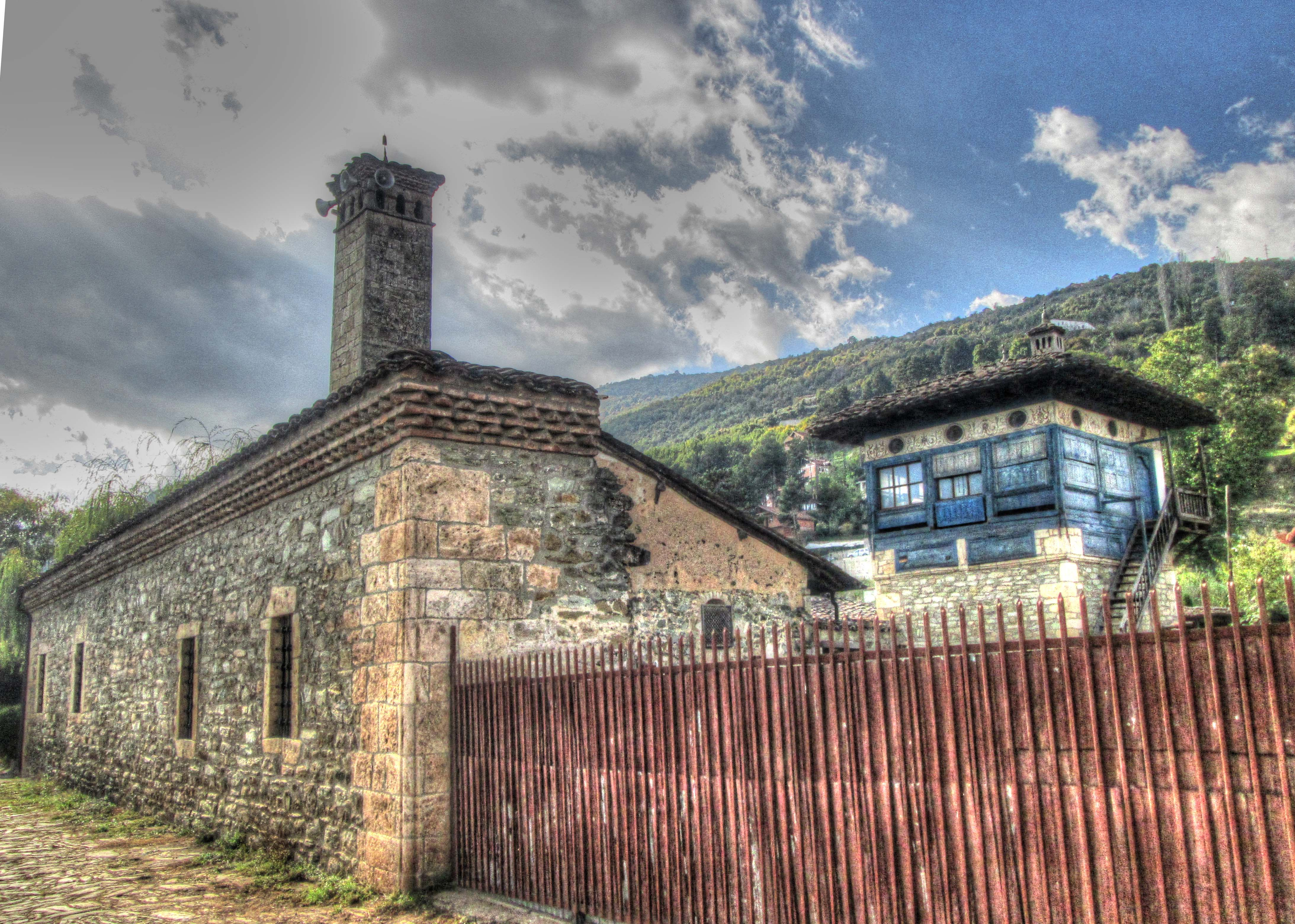 Arabati Baba Tekke in Tetovo was built in 1538 around the türbe of Sersem Ali Baba, an Ottoman dervish, in 1799, a waqf provided by Recep Paşa established the current grounds of the tekke the finest surviving Bektashi monastery in Europe, the sprawling complex features flowered lawns, prayer rooms, dining halls, lodgings and a great marble fountain inside a wooden pavilion.